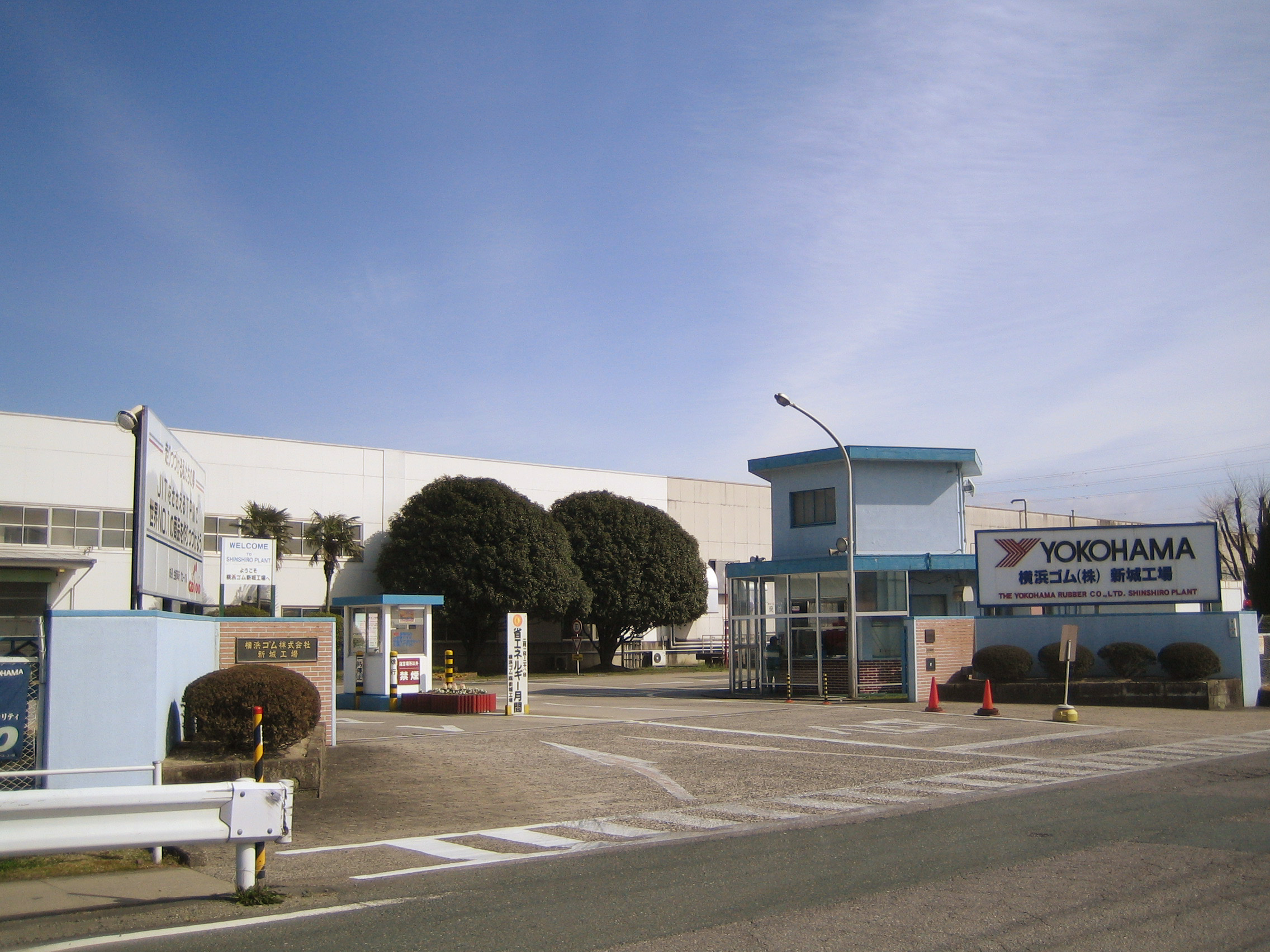 横浜ゴム新城工場。愛知県新城市 Yokohama Rubber Co., ltd. Shinshiro Plant (横浜ゴム株式会社新城工場), located in Shinshiro, Aichi, Japan